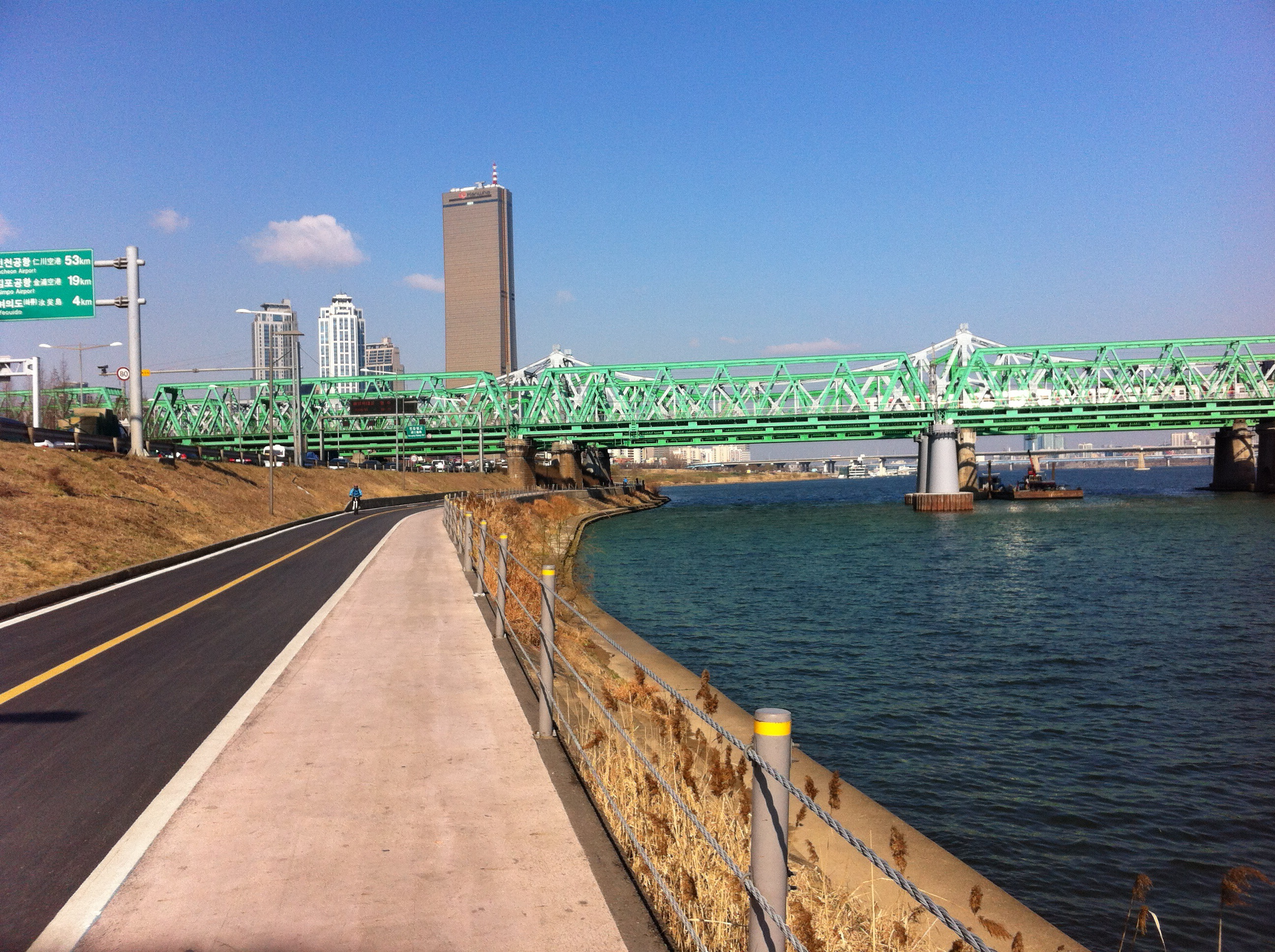 Seoul, Korea- March 2014